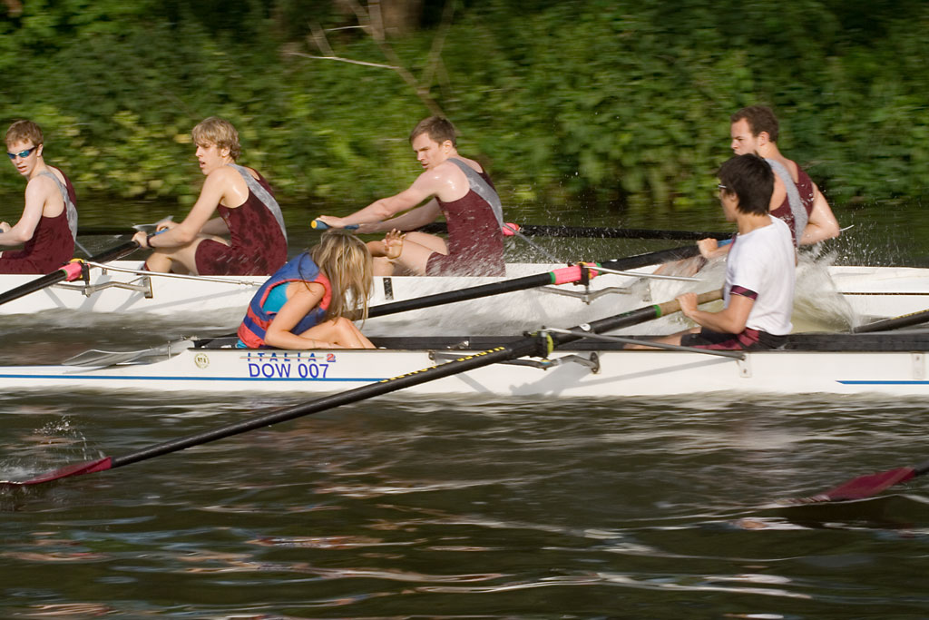 Downing College Boat Club getting bumped in the Cambridge University May Bumps for 2006, racing on the River Cam just outside Cambridge, England.